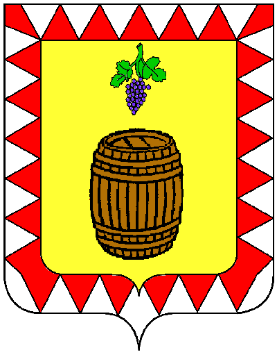 Coat of arms of the municipality of Algund, South Tyrol.